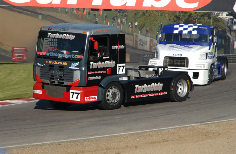 Truck Racing, Brands Hatch, November 2006 - Driver Stuart Oliver E-Truck 09:32, 25 November 2006 (UTC)Chris Jones